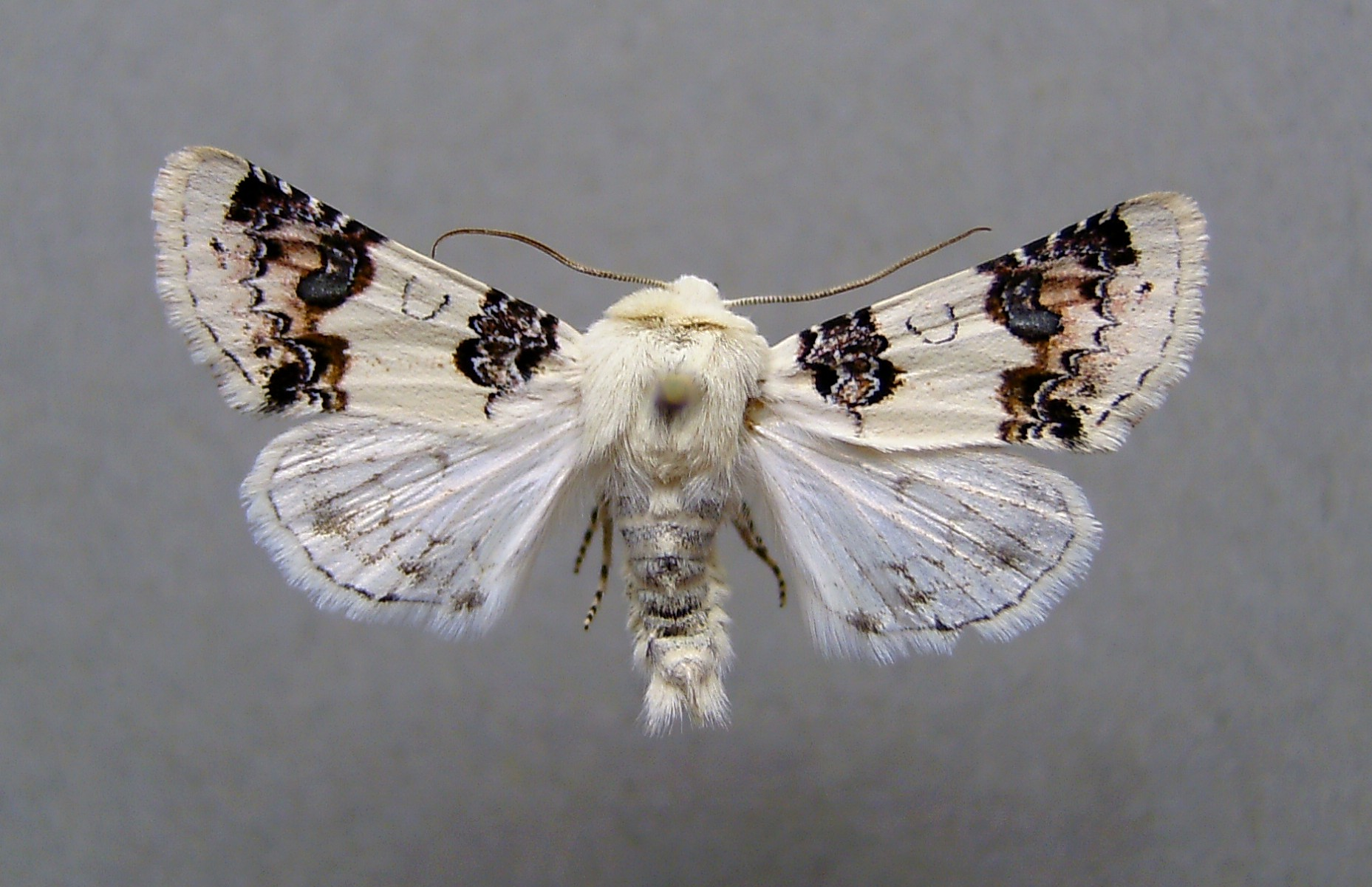 Enterpia laudeti, Hautes-Alpes, France